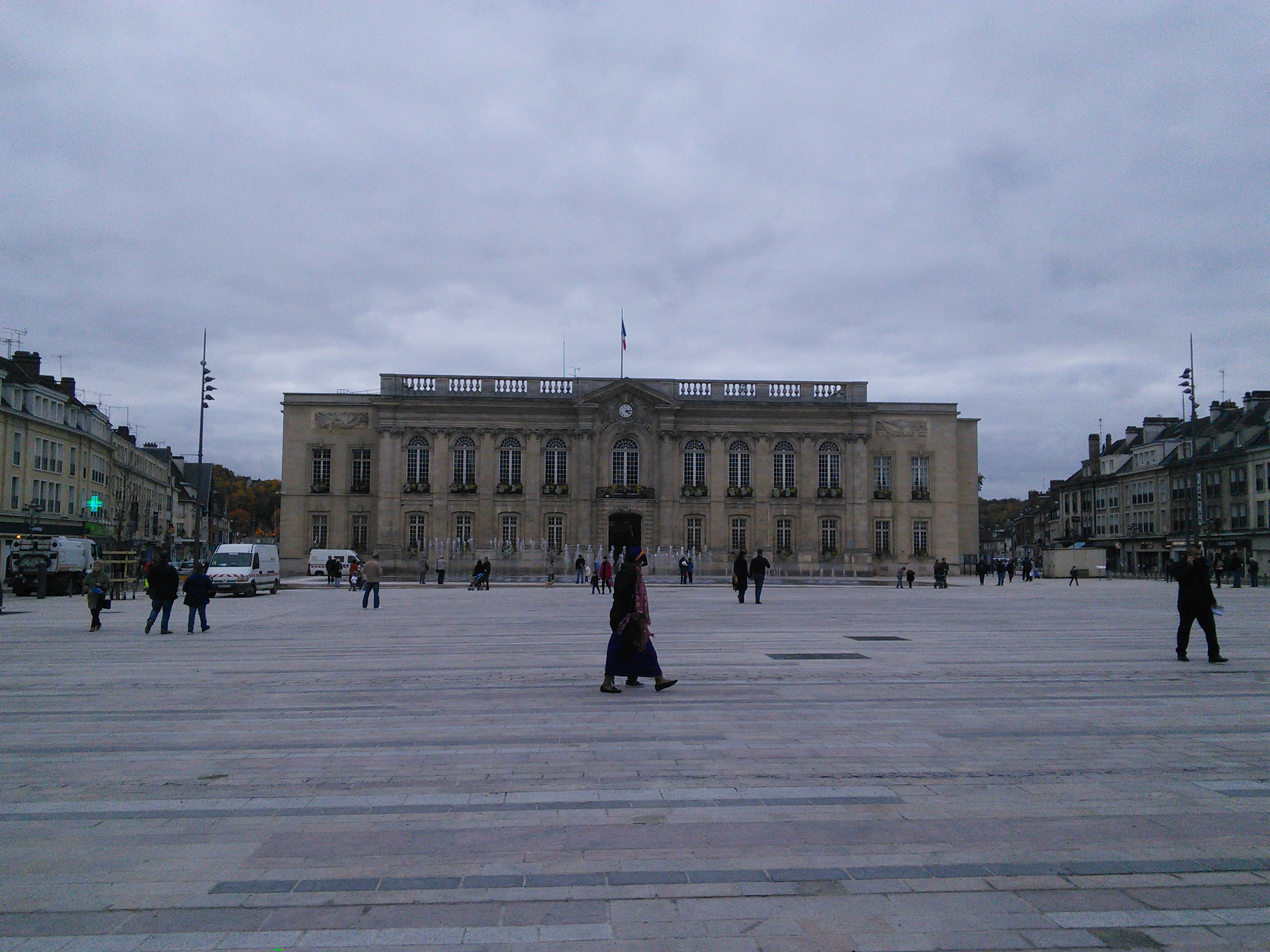 Place Jeanne-Hachette redessinée en 2015.